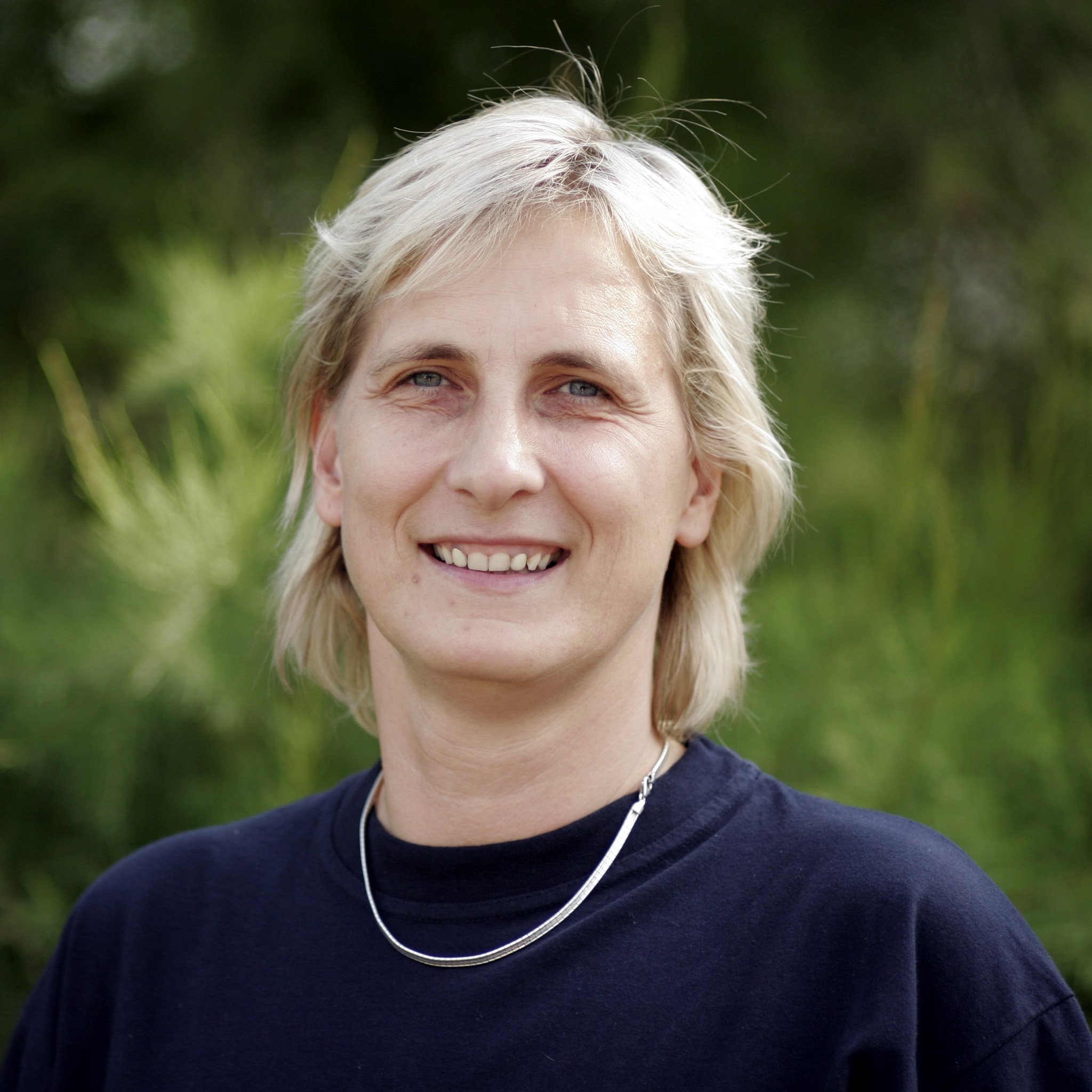 The former Hungarian handball player Ildikó Barna. Now handball coach